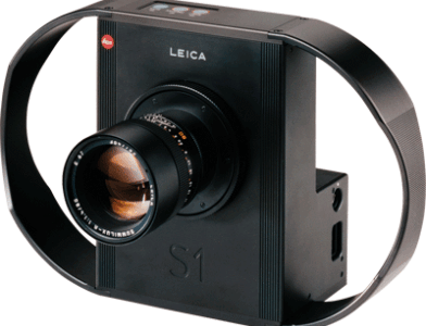 Leica S1 Pro with R-Lens